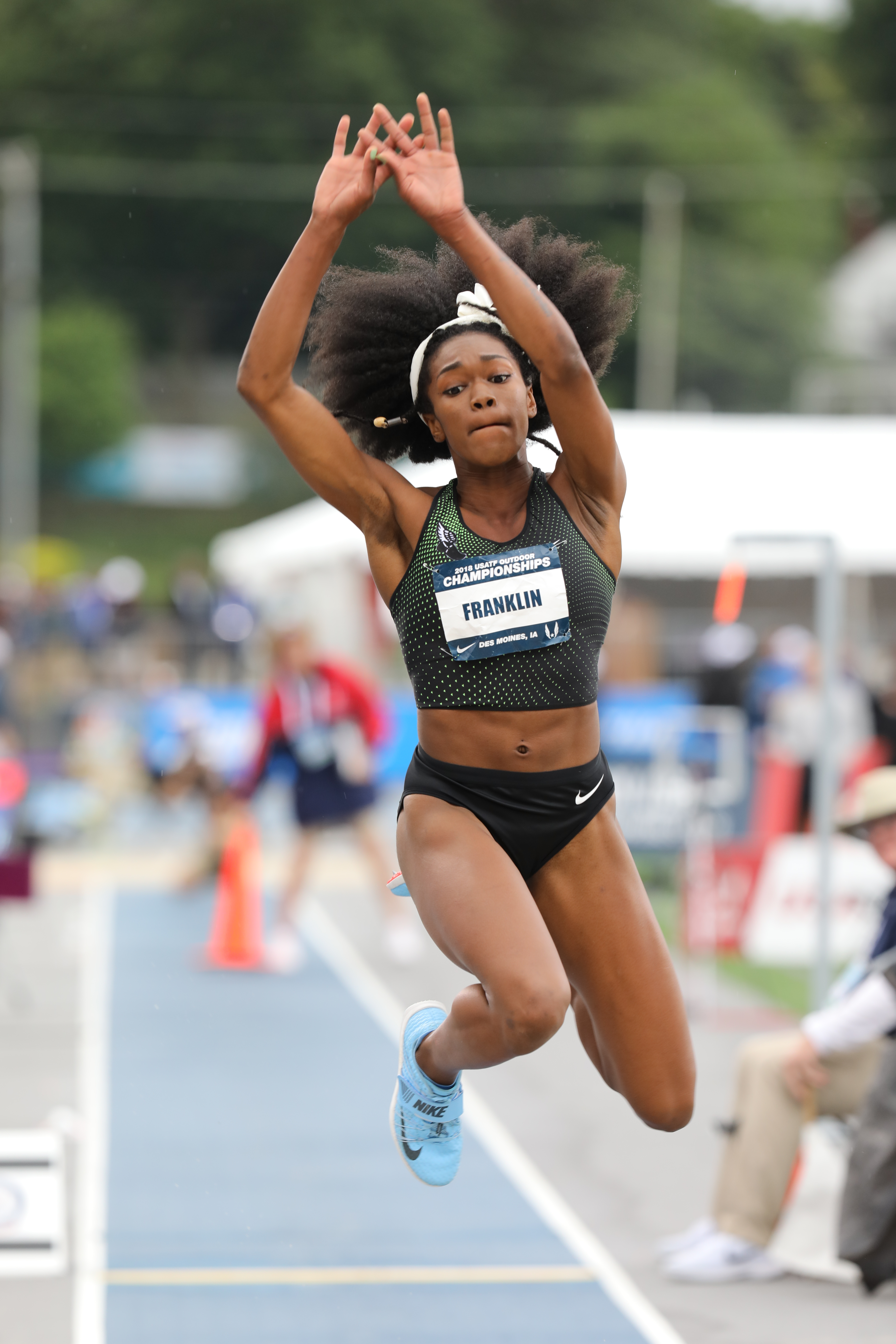 2018 USA Outdoor Track and Field Championships